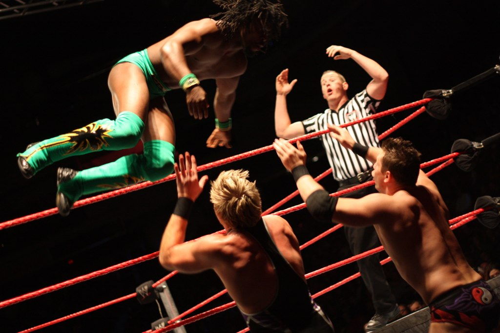 Kofi Kingston leaps over the top rope and onto Jack Swagger and The Miz during their Triple Threat match at a WWE House Show in Halifax, Nova Scotia, Canada.